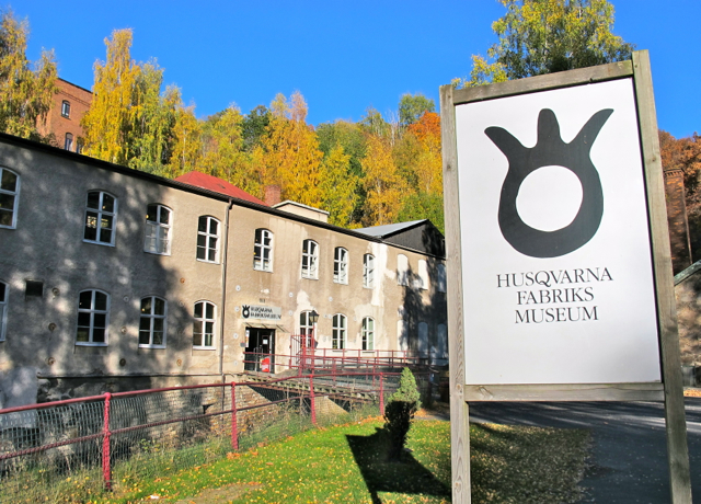 Husqvarna Industrial Museum